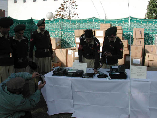 Pakistani border police (Frontier Corps) test new communications equipment provided by the Bureau of International Narcotics and Law Enforcement Affairs